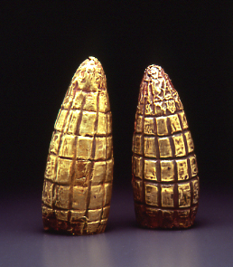 Mochica Corn: 400 A.D. Larco Museum Collection. Free use.